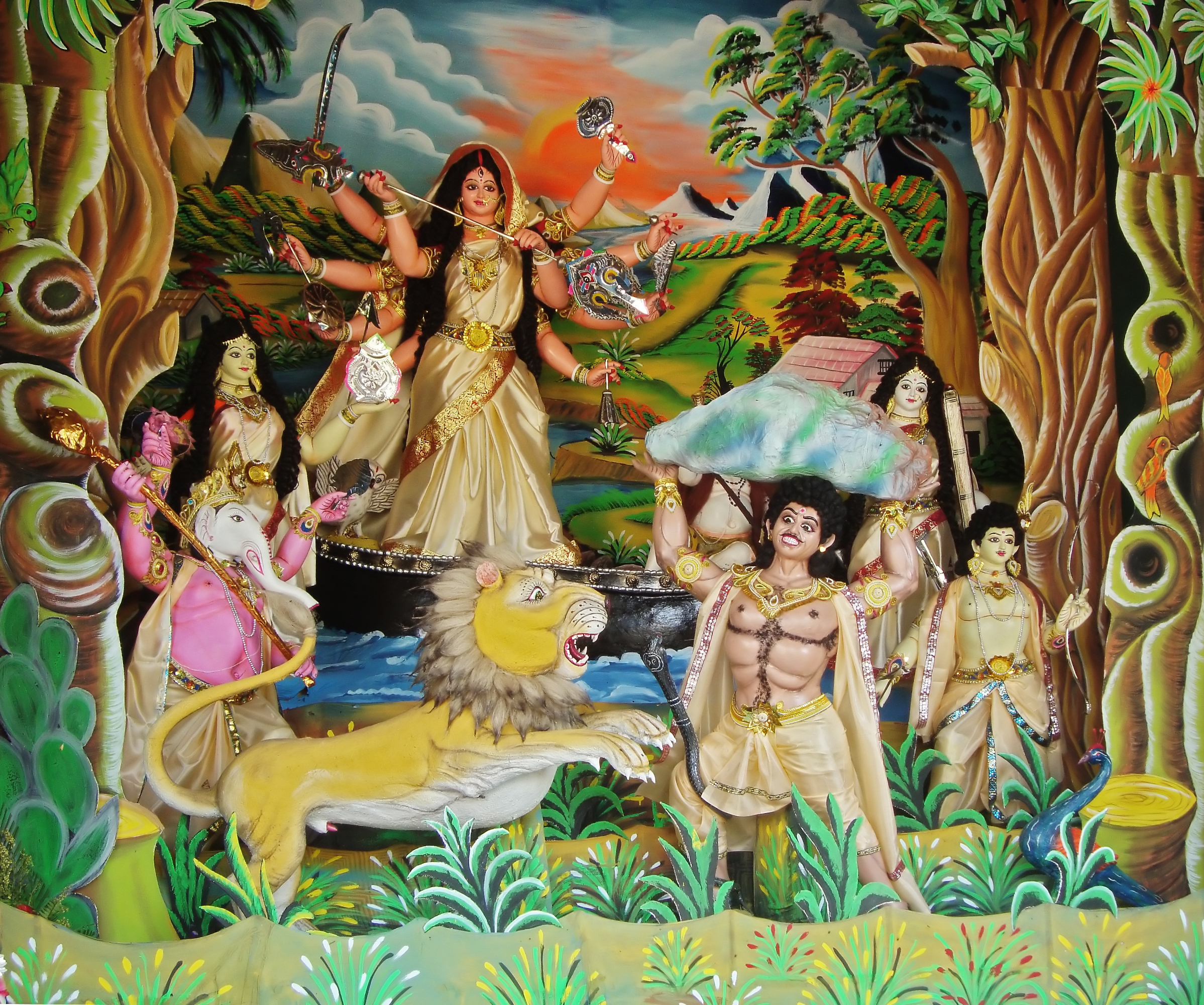 Sculpture of goddess Durga in a public gathering at the time of Durga festival at Burdwan, West Bengal, India.